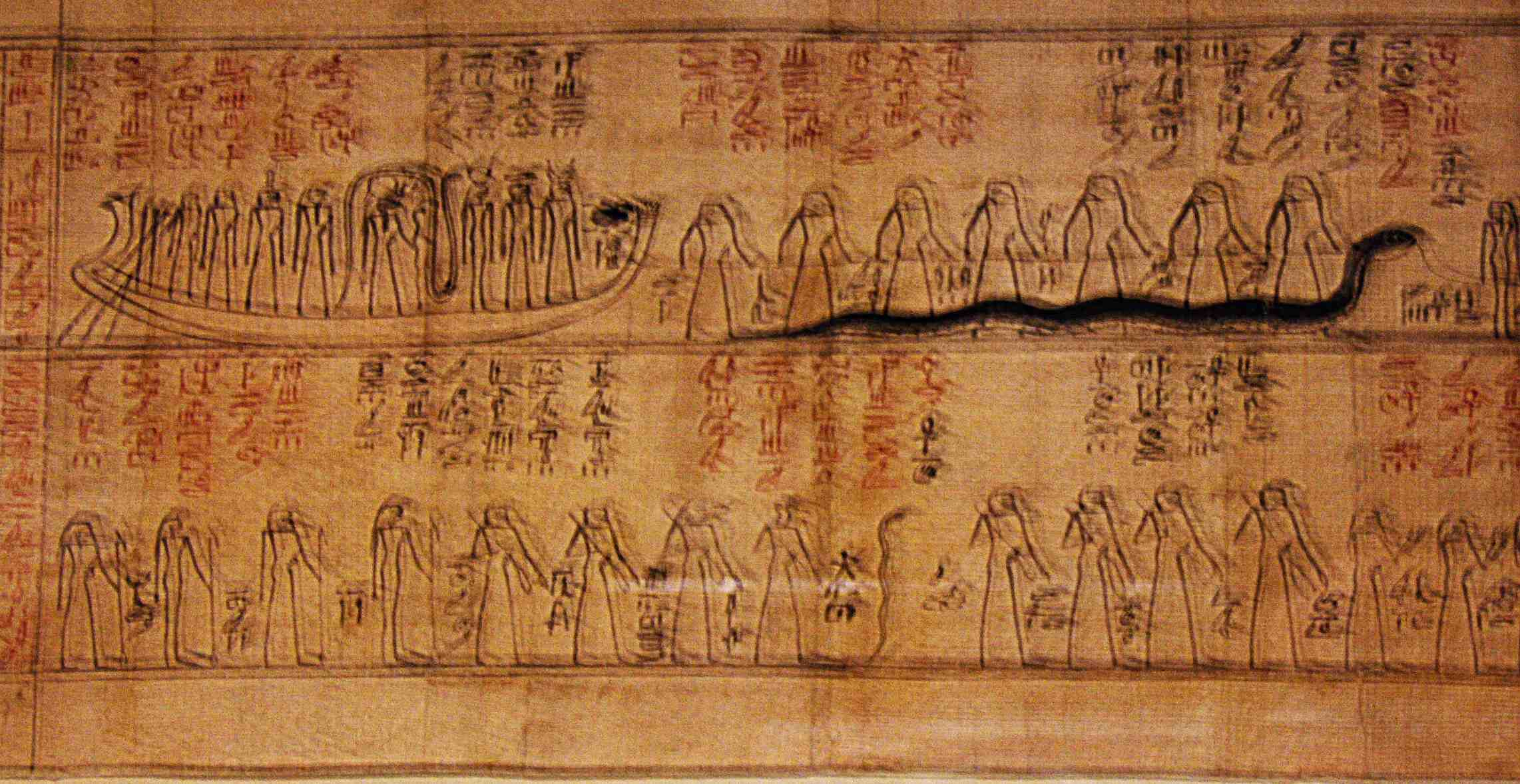 Sample image from a papyrus scroll found by a mummy, describing Rê's journey through the 12 hours of the night, where he must enter the tail of the great serpent, known as "Encircler of the World," and exit out of the mouth, thus reversing time and regenerating the sun god. The name of the big snake is Mehen.